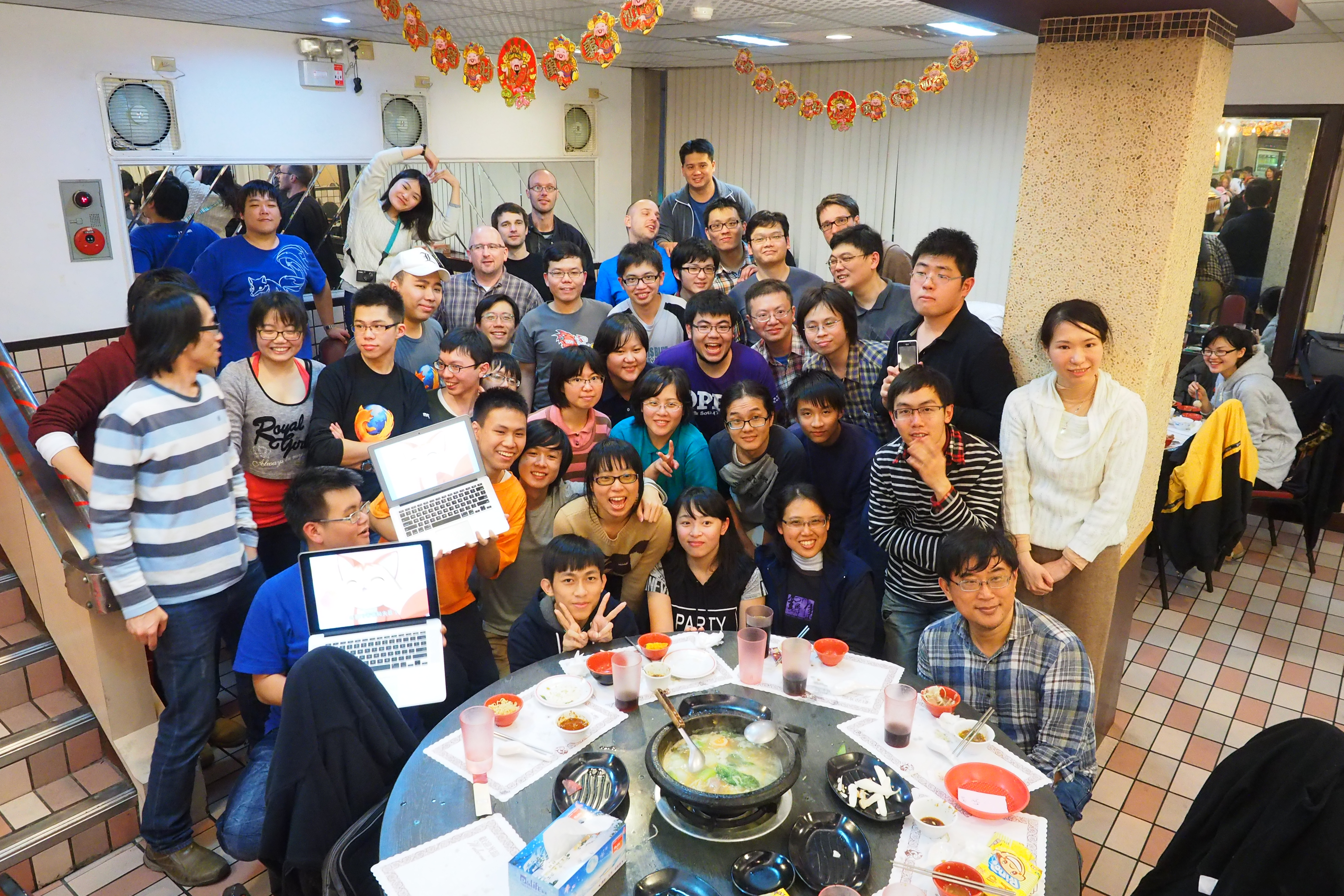 MozTW & Wikimedia Taiwan 2013 community weiya.中文（台灣）: MozTW 與 Wikimedia Taiwan 2013 聯合社群尾牙。